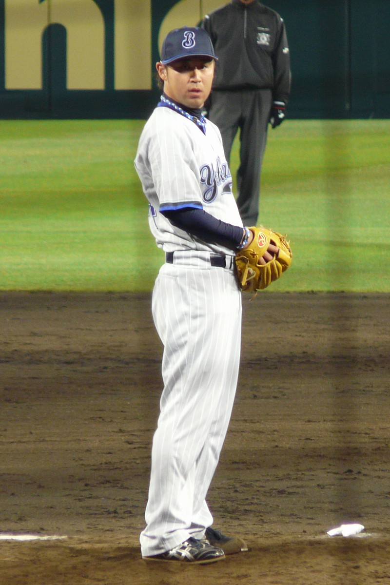 Yuya Ishii, pitcher of the Yokohama BayStars, at Hanshin Koshien Stadium.